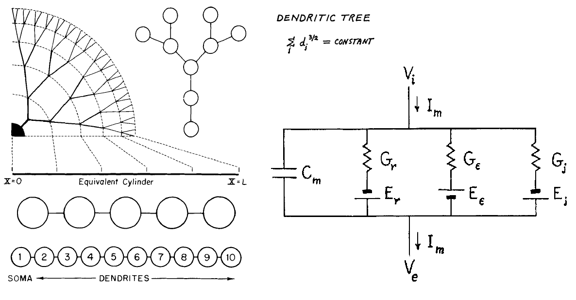 Rall model - Equivalent cylinder. Adapted from Rall W. (1977) Core conductor theory and cable properties of neurons. In Kandel, E.R., J.M. Brookhardt, and V.M. Mountcastle eds. Handbook of physiology, cellular biology of neurons. Bethesda, MD: American Physiological Society; 39-97.